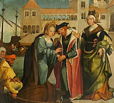 Os santos mártires de Lisboa Veríssimo, Júlia e Máxima, tendo como fundo a casa da Índia e o Paço da Ribeira (Lisboa) Escola Portuguesa (Garcia Fernandes , ca. 1530) Ponta Delgada, Museu Carlos Machado